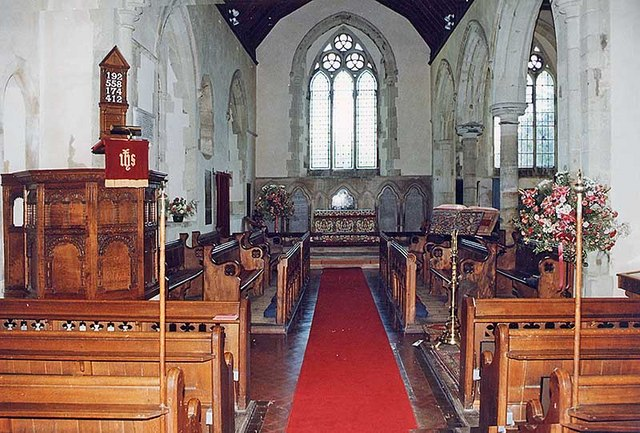 St George, Arreton - East end